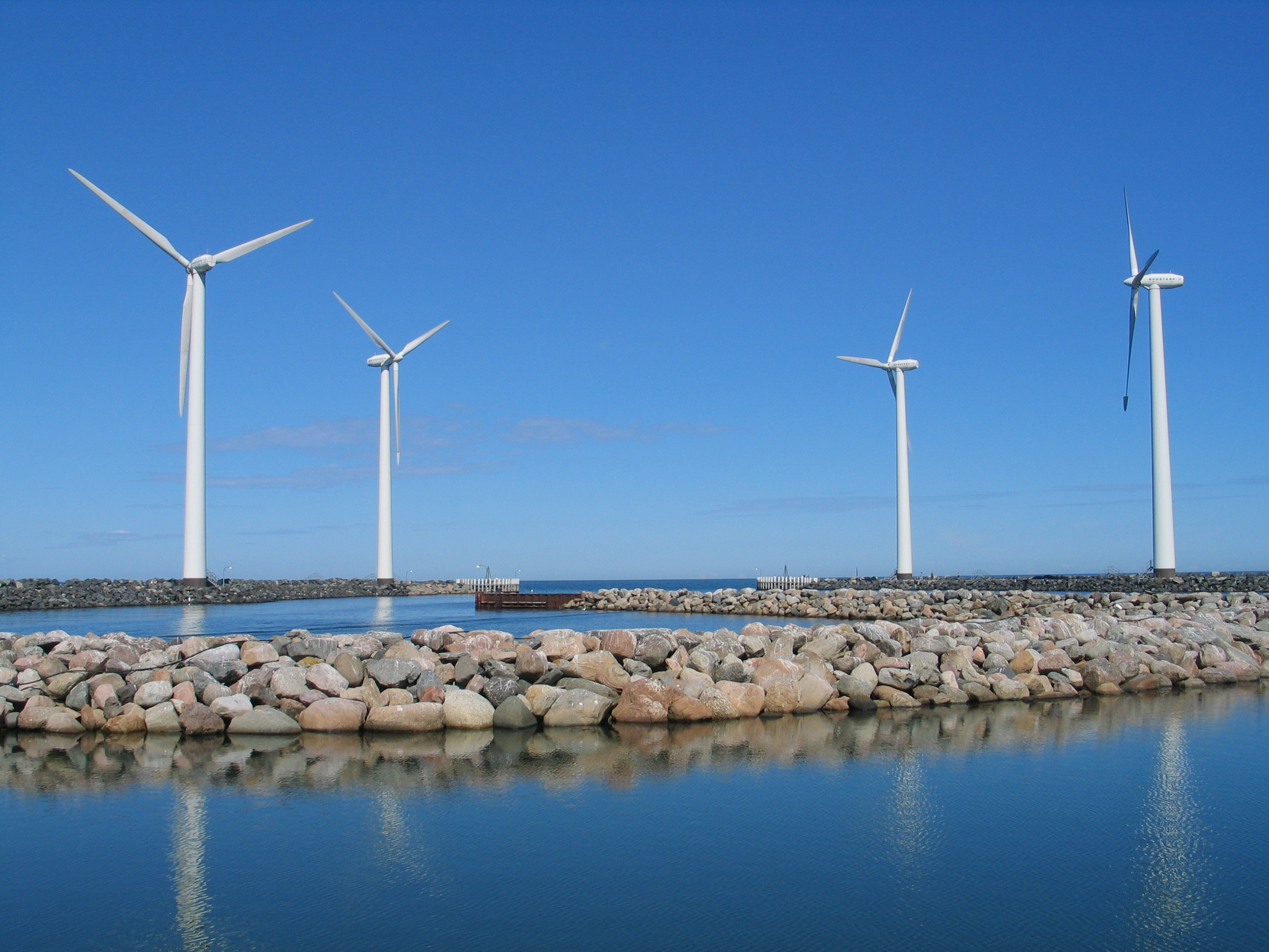 Windmills at the shore of denmark at Bønnerup Strand